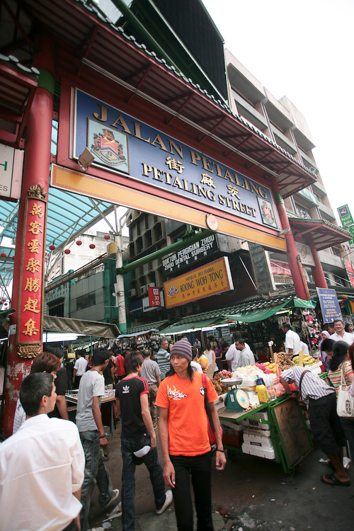 Petaling Street Gate on a typical day.